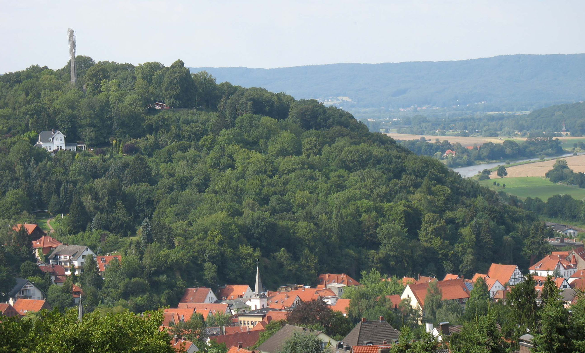 Town of Vlotho, District of Herford, North Rhine-Westphalia, Germany.